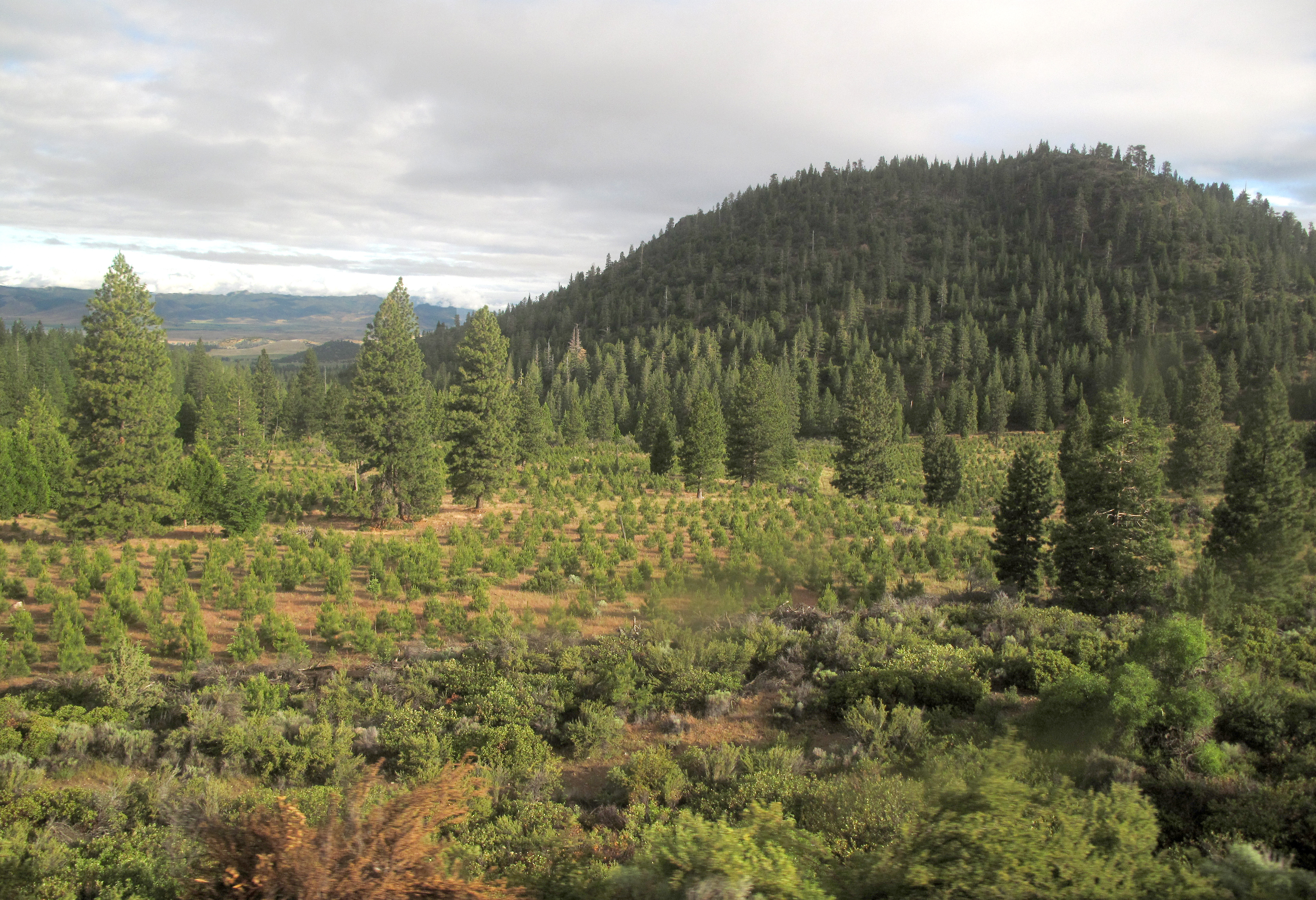 Reforestation after logging in southern Oregon, USA